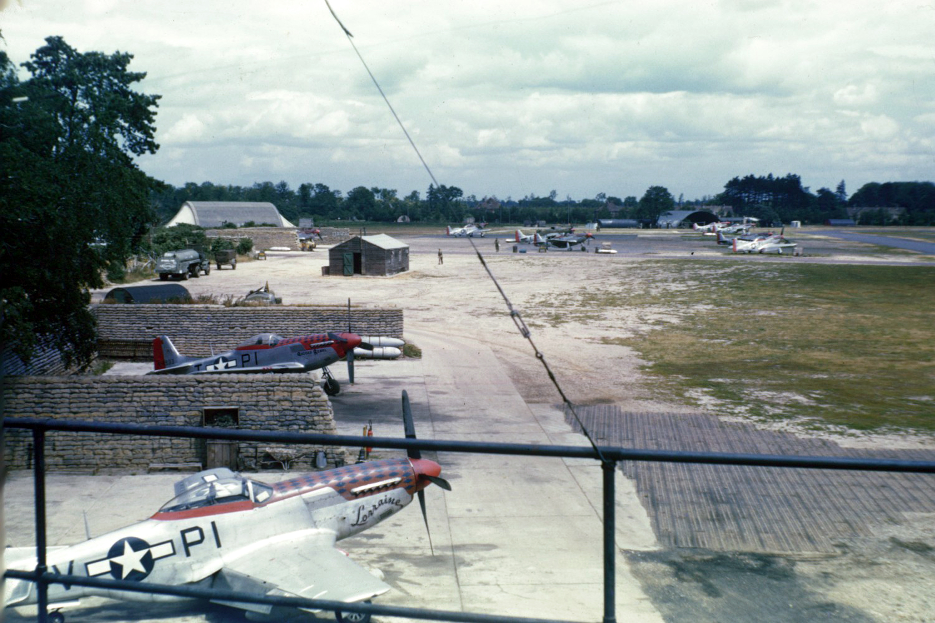 P-51s of the 356th Fighter Group at Martlesham Heath airfield England.